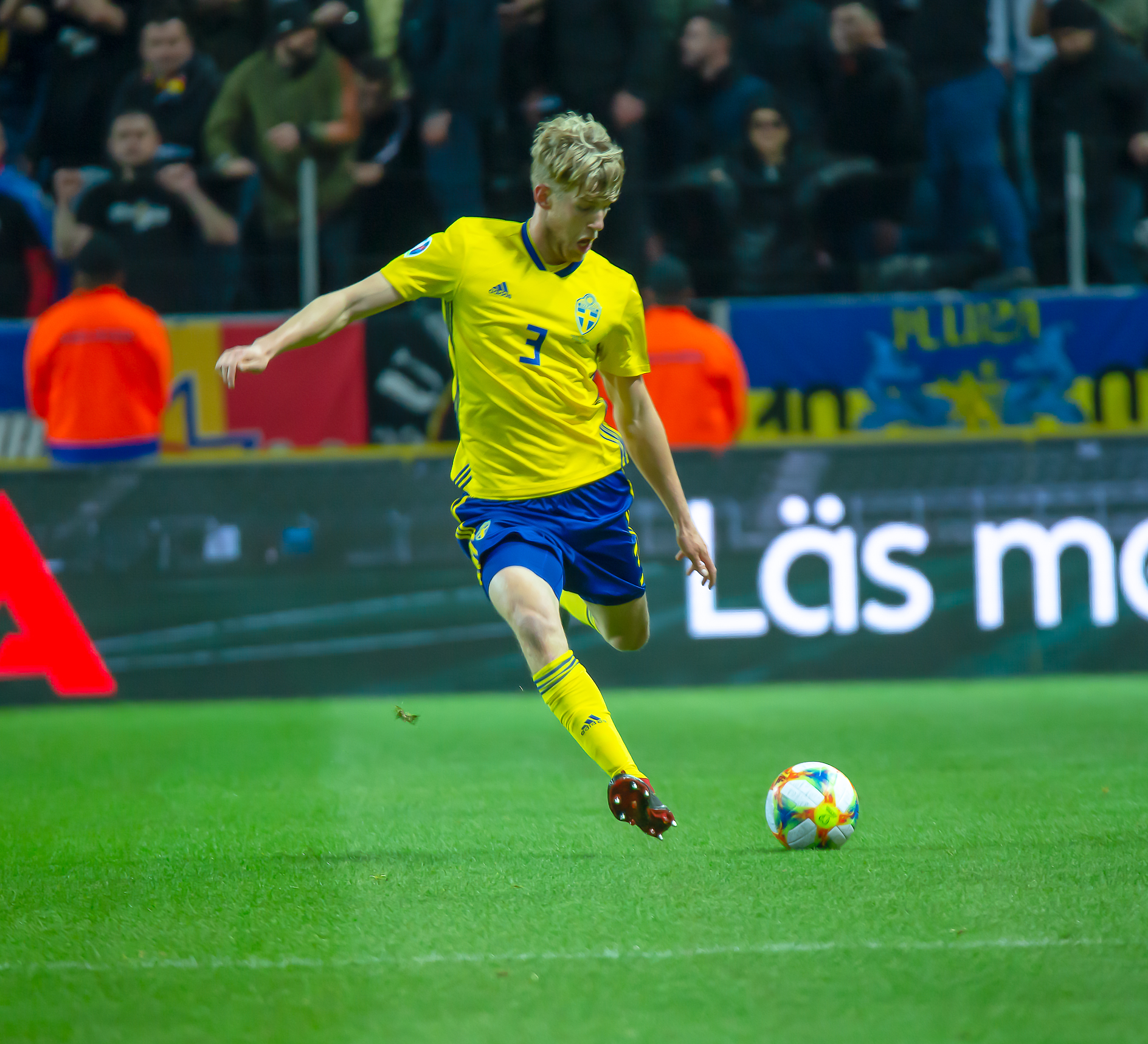 UEFA EURO qualifiers Sweden vs Romania 20190323